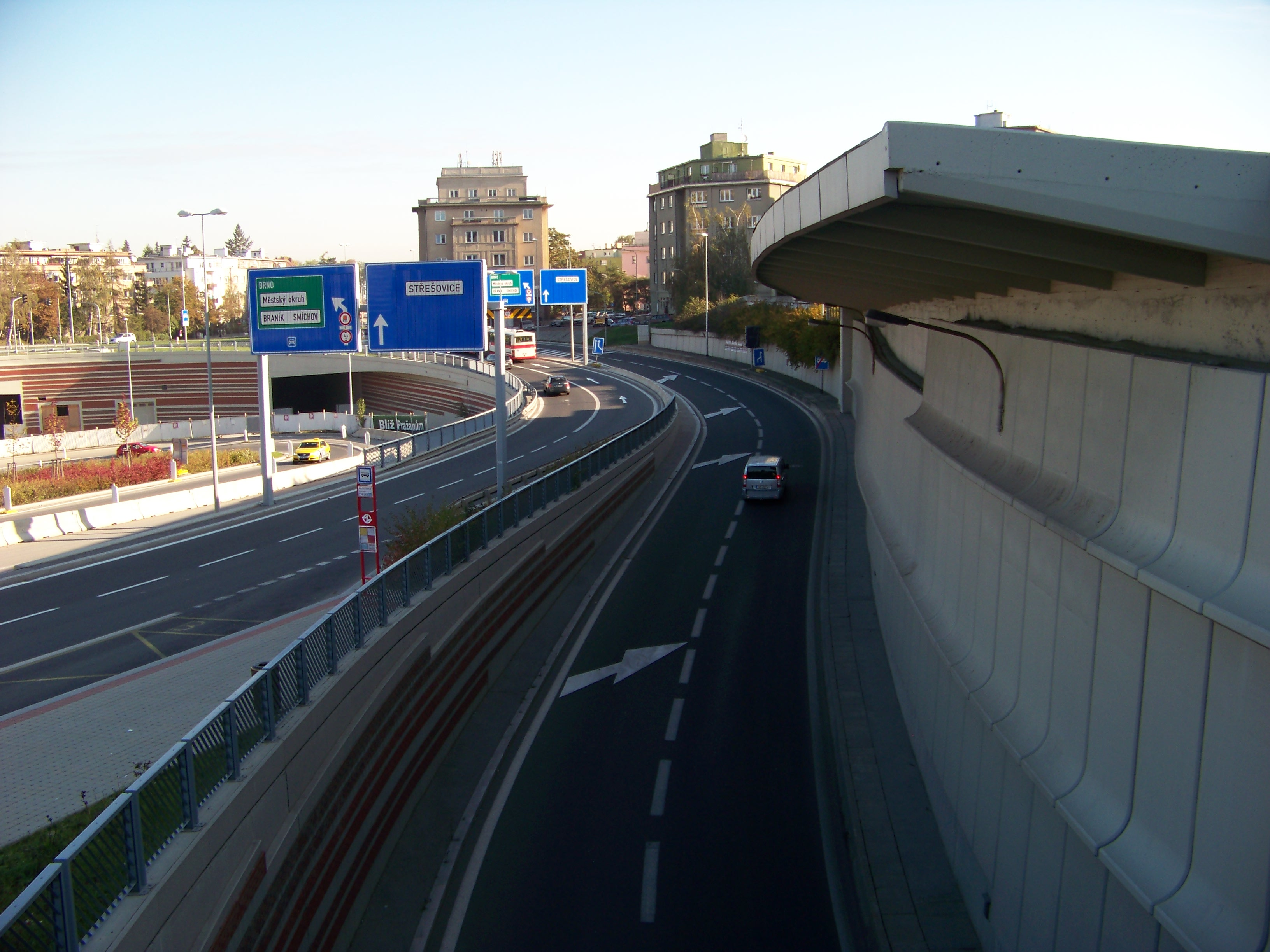 Prague-Střešovice, the Czech Republic. Malovanka Interchange, bus stop Na Petynce.